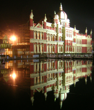 Durga Puja pandal at College Square, Calcutta, which has a large lake in front. The pandal is a full scale replica of the Coochbehar Palace in N. Bengal.